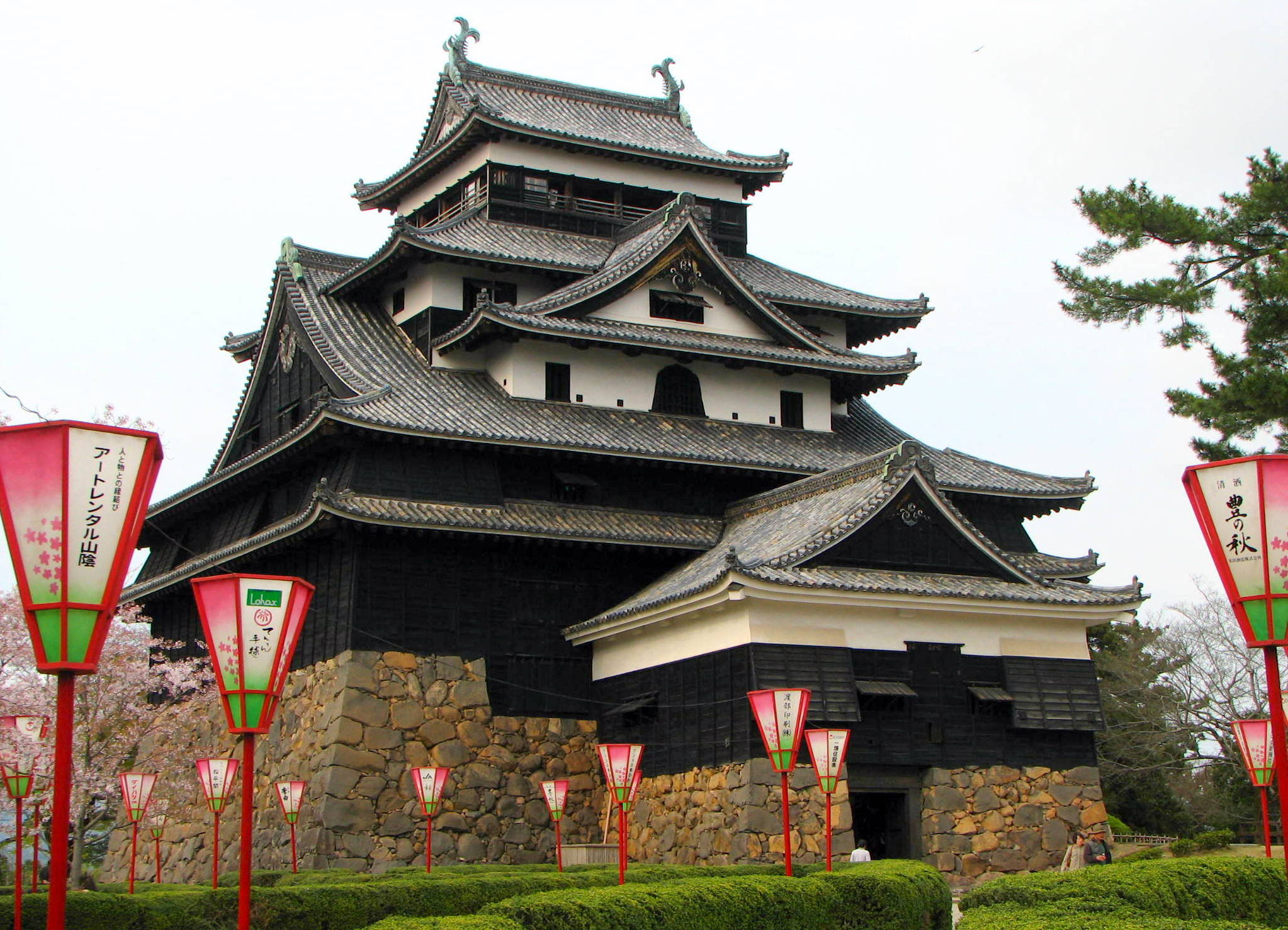 Matsue Castle, Matsue, Shimane Prefecture, Japan